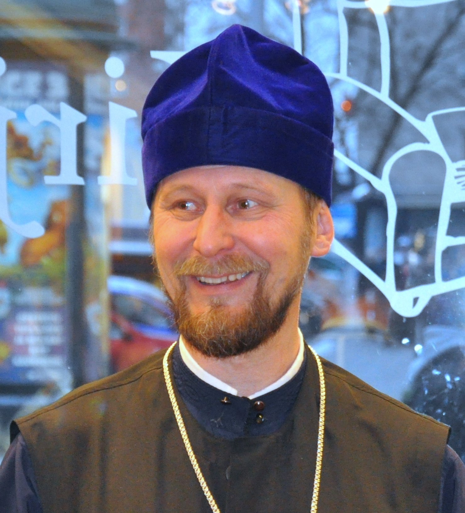 Bishop Arseni of Joensuu at the Pieni Kirjapuoti bookstore in Turku 2009.